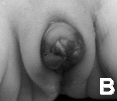 Ambiguous genitalia of a preterm infant, showing clitoromegaly and hyperpigmentation. There were a number of other abnormalities present, including holoprosencephaly, midline facial defects, polydactyly, etc. Karyotype proved to be 46, XX.